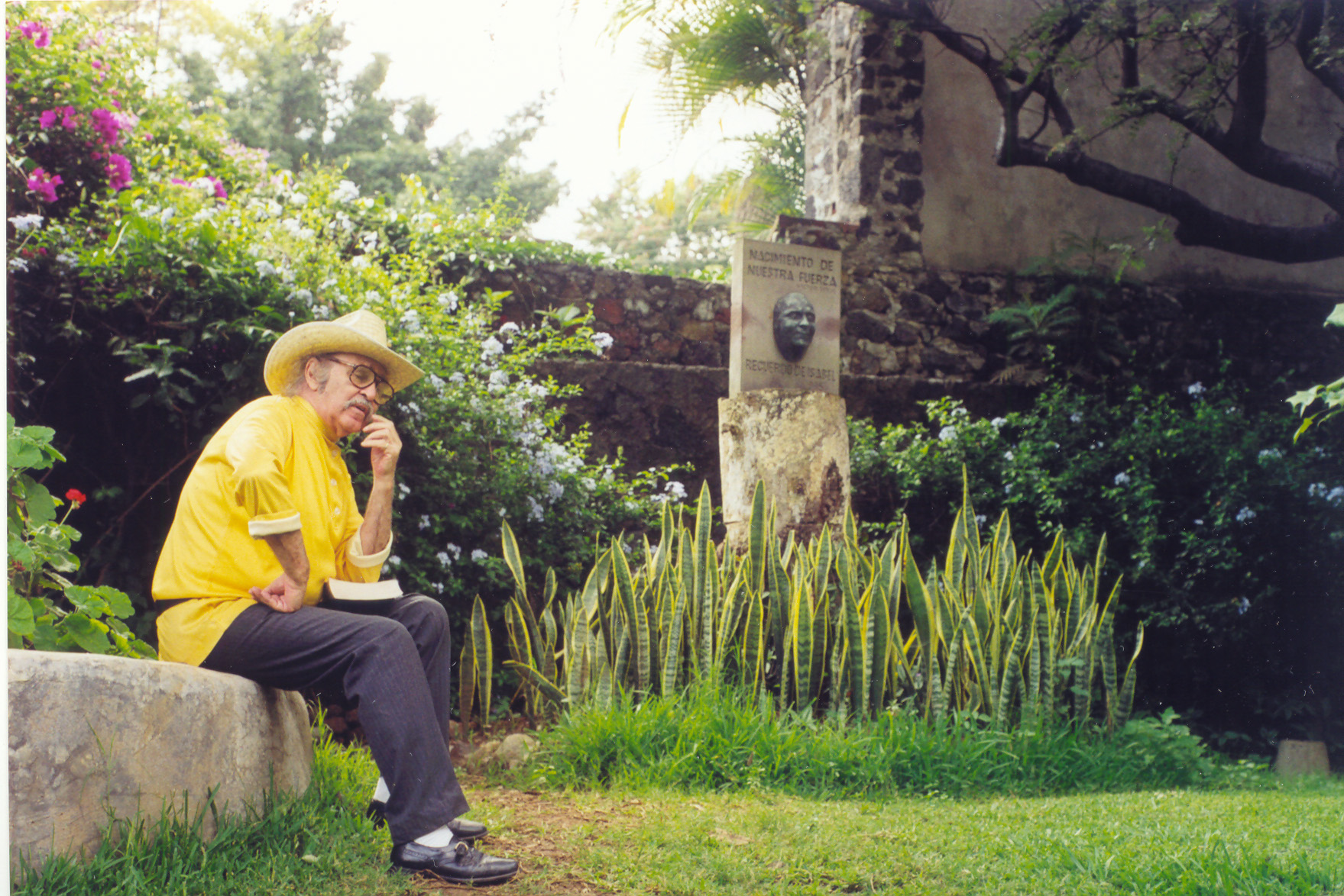 Vlady in his garden in Cuernavaca